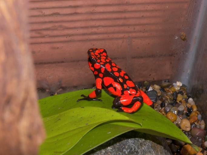 Oophaga histrionica